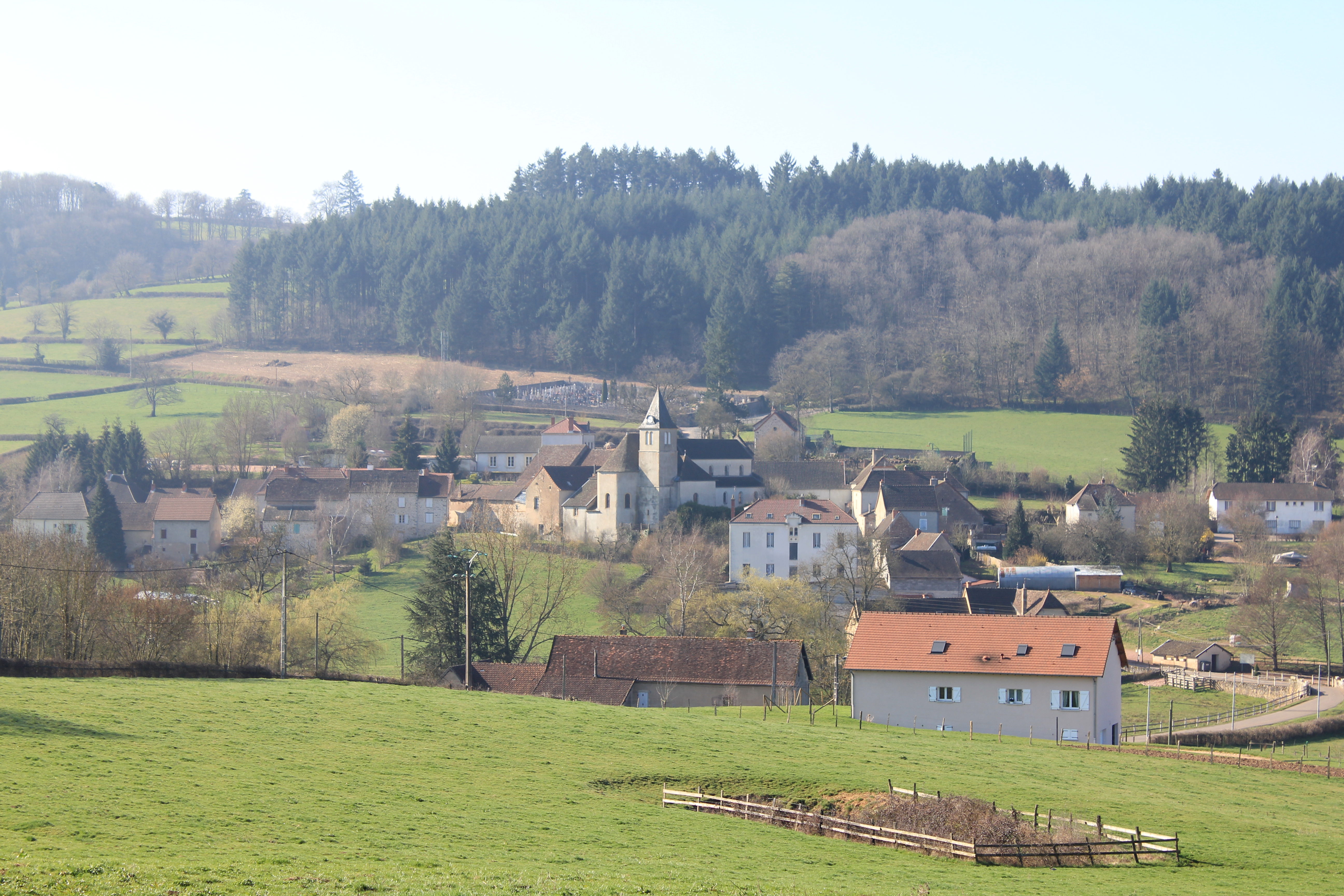 Picture of Ozolles, Saône et Loire, France.